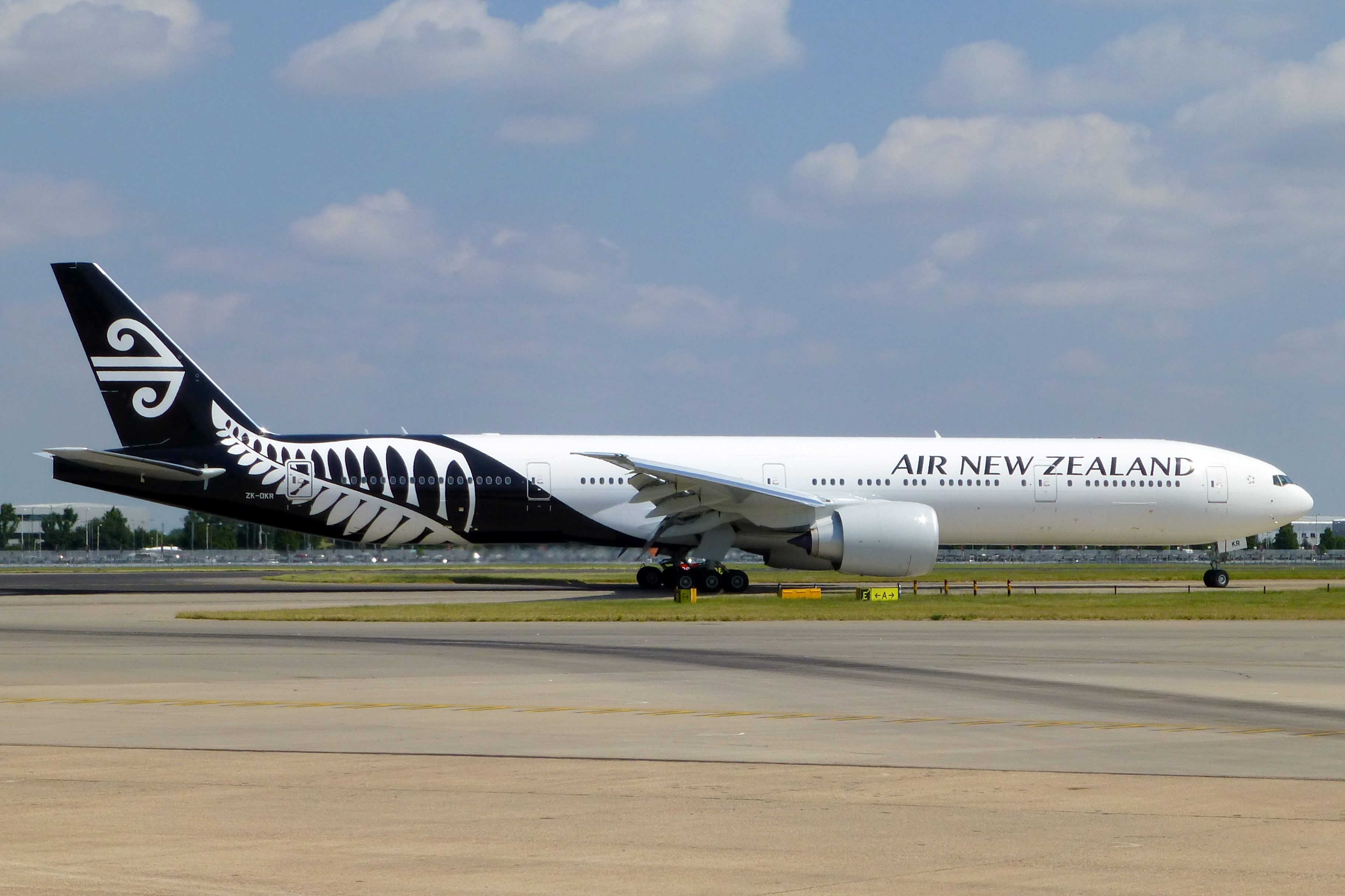 ZK-OKR Boeing 777-300ER Air New Zealand just vacated rwy 027R on its first visit.